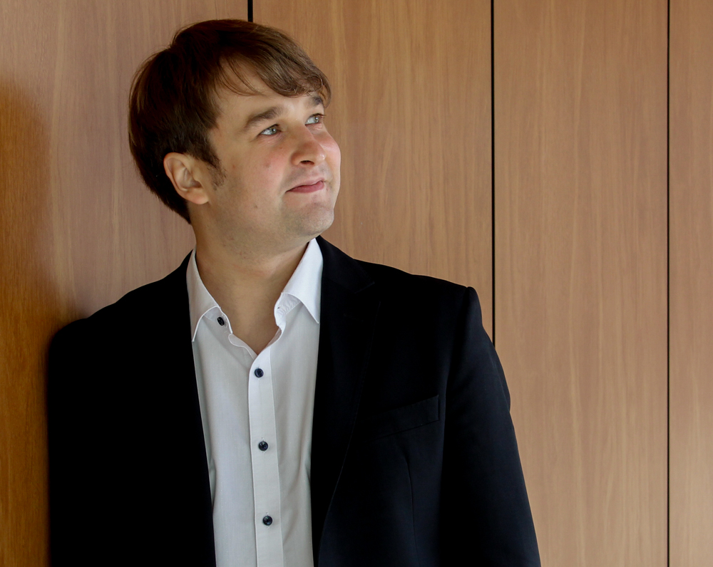 Peter Ovtcharov. World-famous Russian pianist and Yonsei University professor.